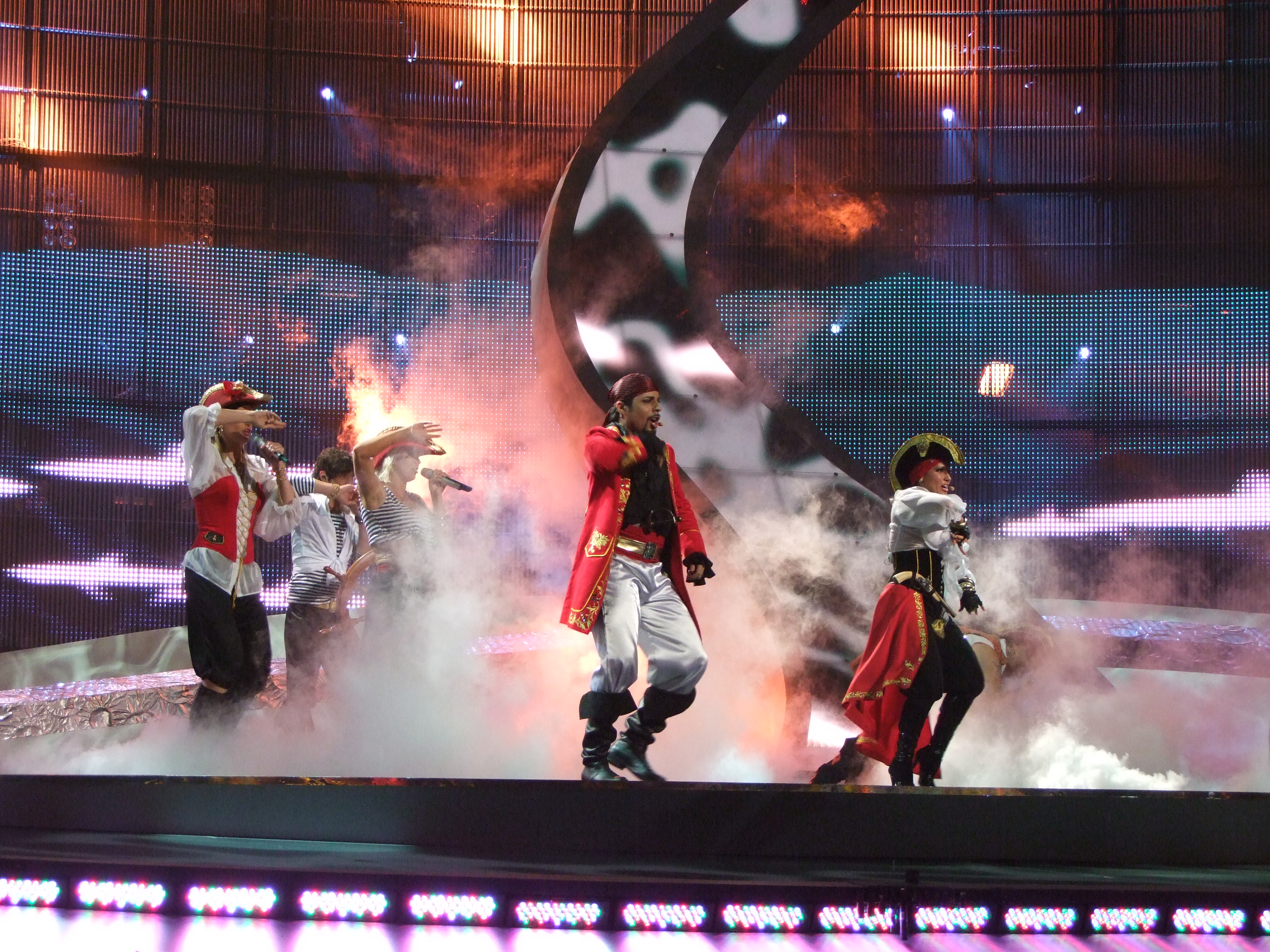 The group Pirates of the Sea in the second semi-final at the Eurovision Song Contest in Belgrade, Serbia, May 22, 2008.